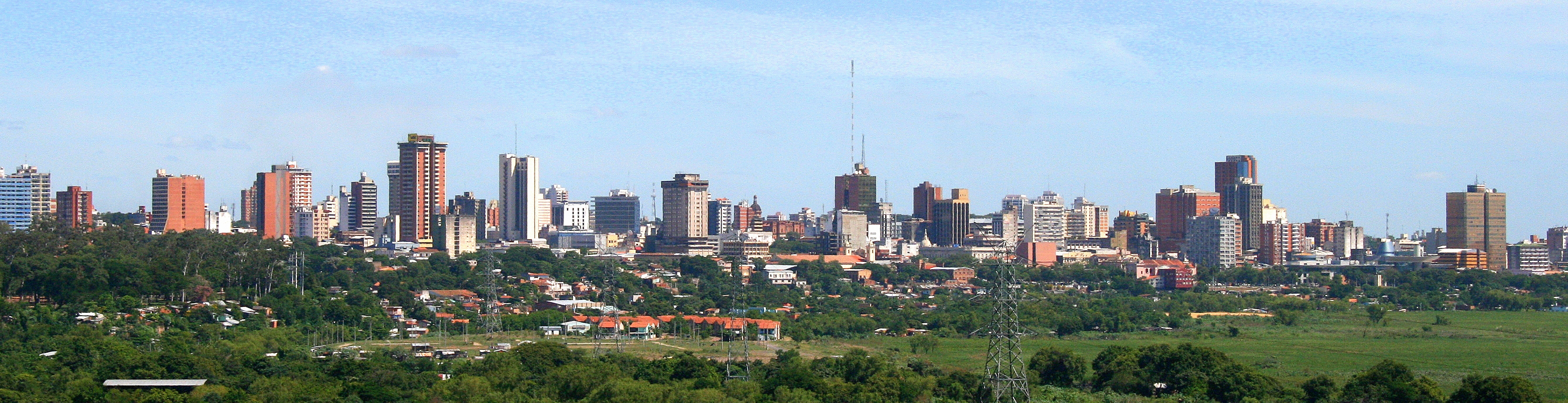 Aspecto de Asunción desde La Costa